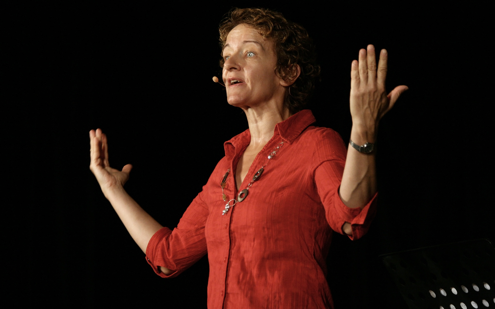 Actress Susanne Pöchacker presenting her kabarett 'Sie werden dran glauben müssen!' (Vienna).